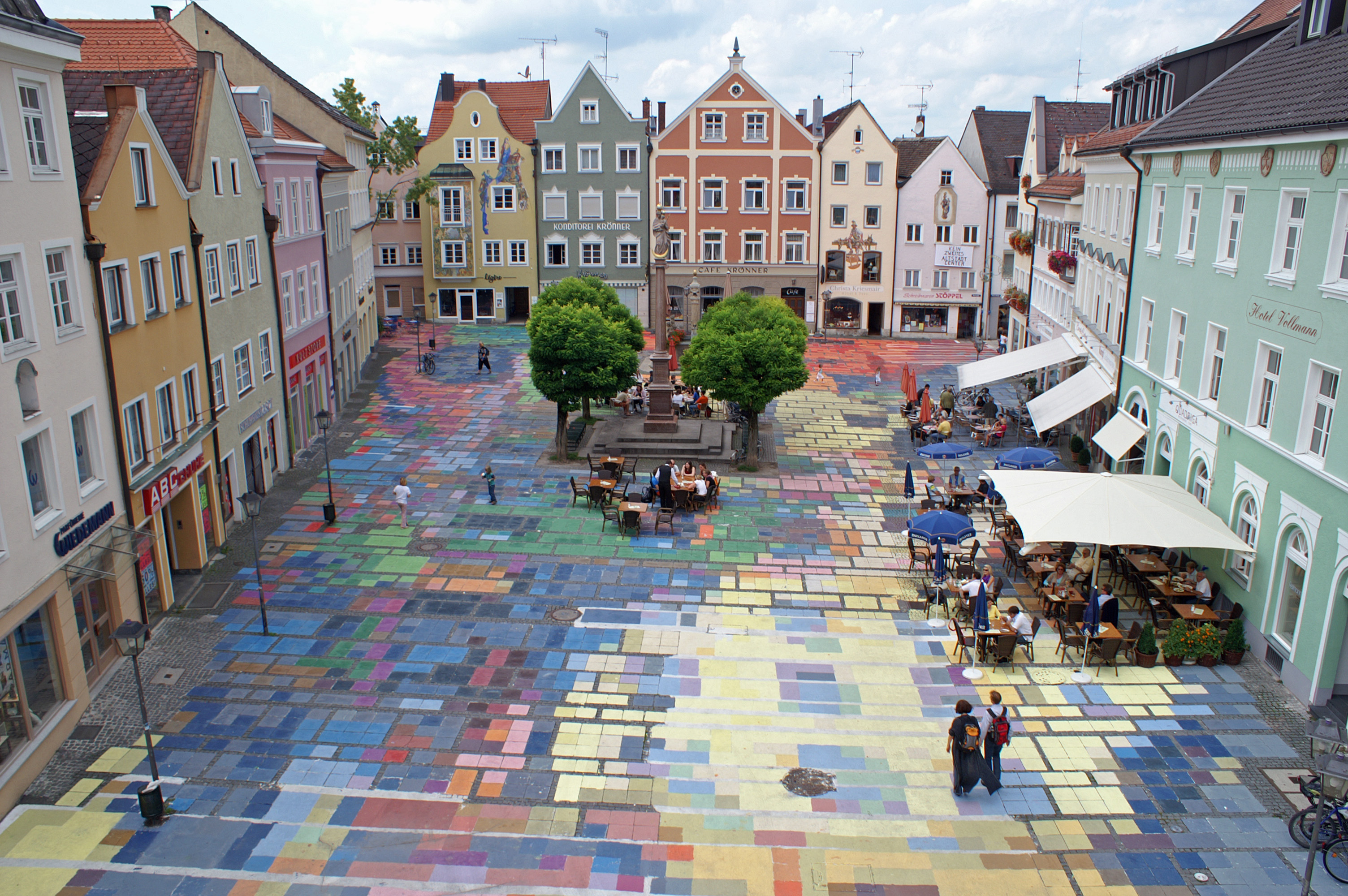 Bemalter Marienplatz im Sommer 2008 in Weilheim/Obb.